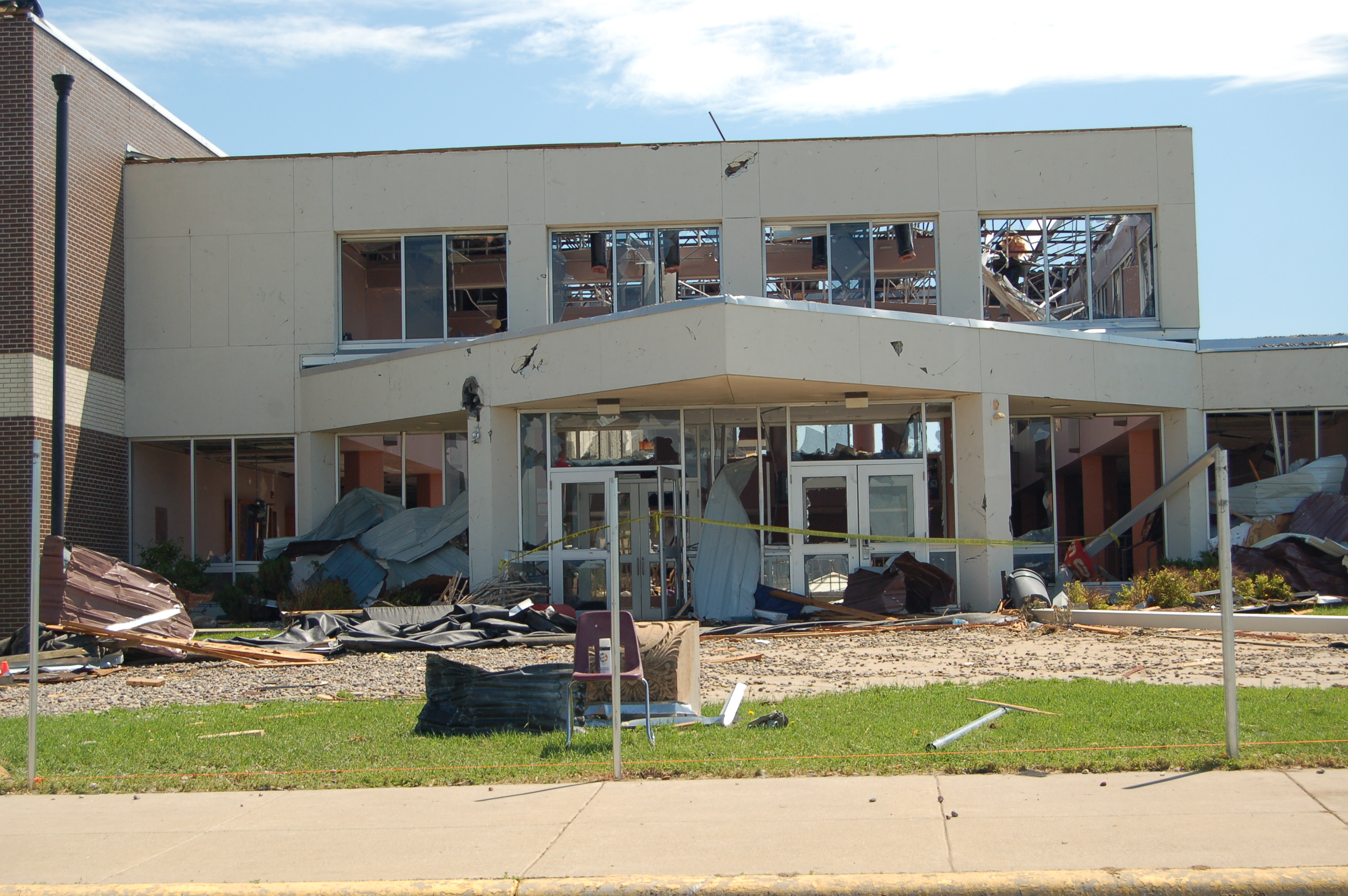 Wadena, MN, June 22, 2010 -- Debris from the June 17, 2010 EF4 tornado is scattered along an entrance to the Wadena Deer Creek High School. Preliminary Damage Assessments (PDA) have been completed and will help to determine if the facility qualifies for federal assistance. FEMA/Michael Mancino